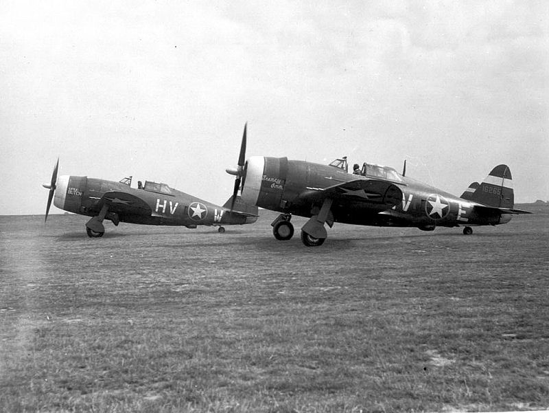 Republic P-47C-2-RE Thunderbolts of the 61st Fighter Squadron, 56th Fighter Group 41-6265 identifiable